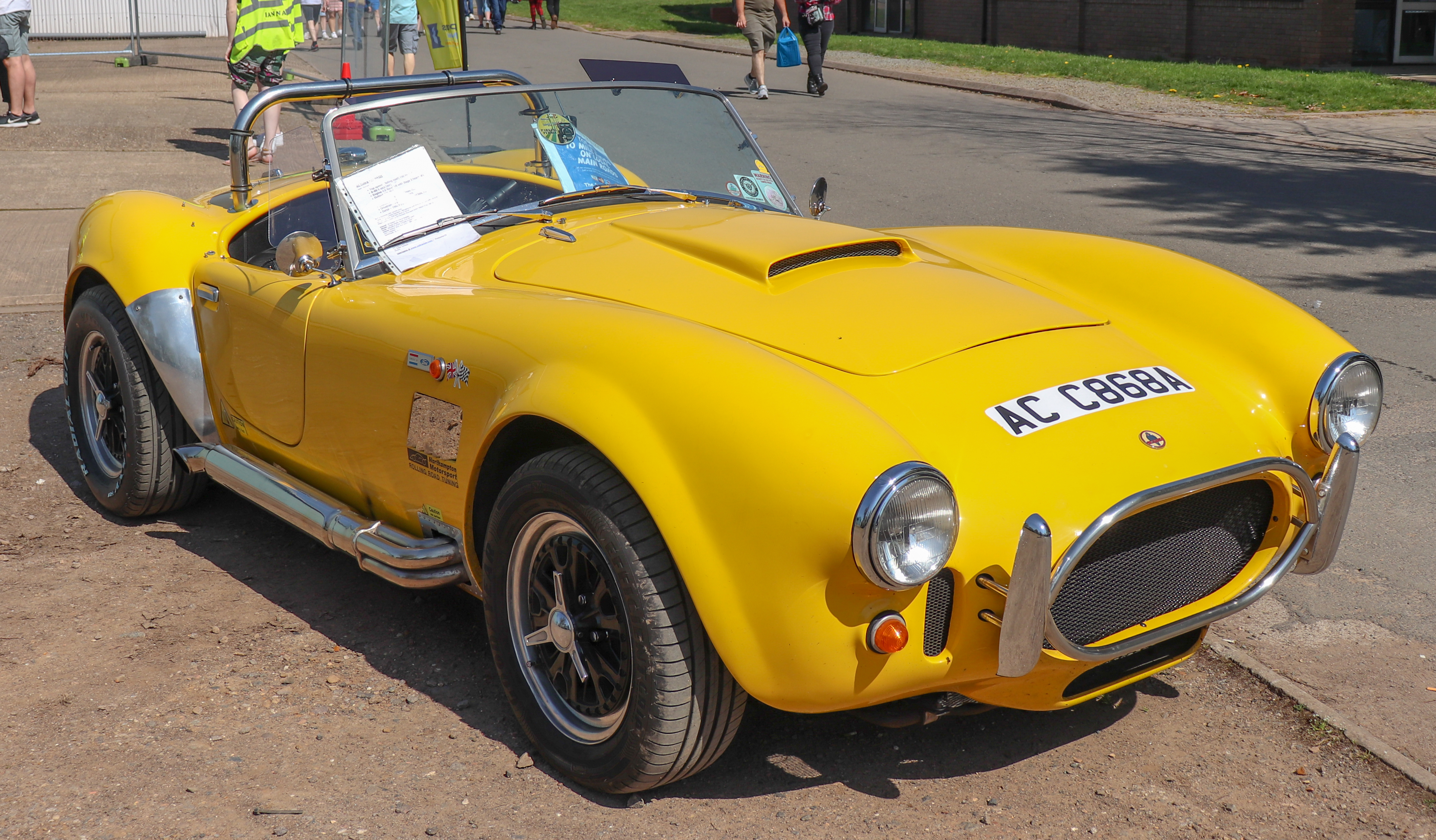 1991 Pilgrim Sumo Mk II (AC Cobra 427 Mk III Replica) 4.6 Front Taken at the Midlands Auto Fest 2019 NAEC Stoneleigh, Stoneleigh, Coventry